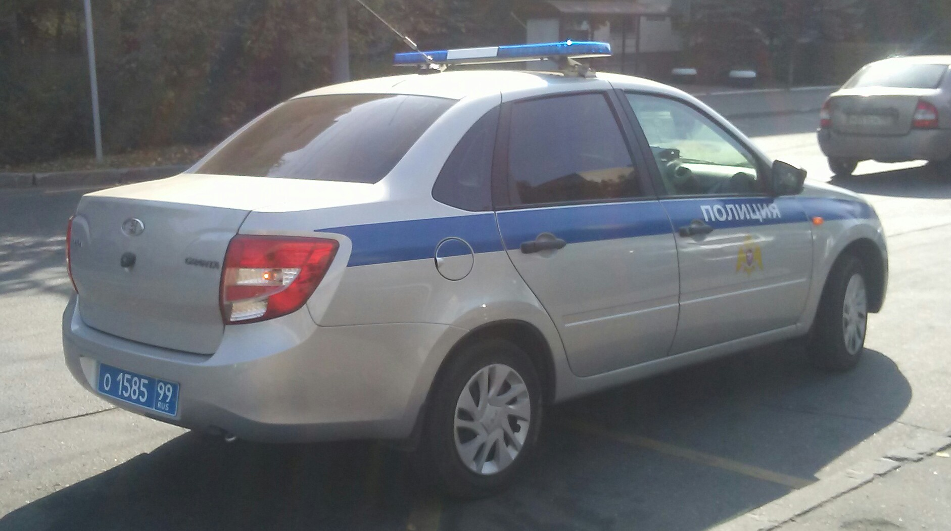 Lada Granta used as National Guard of Russia vehicle, Moscow